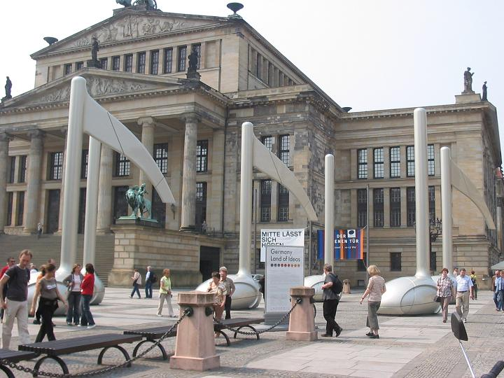 „Masterworks of Music“, fifth sculpture (from six) of the Berliner Walk of Ideas on the occasion of 2006 FIFA World Cup Germany. The notes symbolise Germany as a nation of music with famous composers and interpreters. Unveiling: 5 May 2006 on Gendarmenmarkt. With Konzerthaus by Schinkel in the background